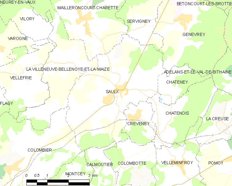 Map of French municipality